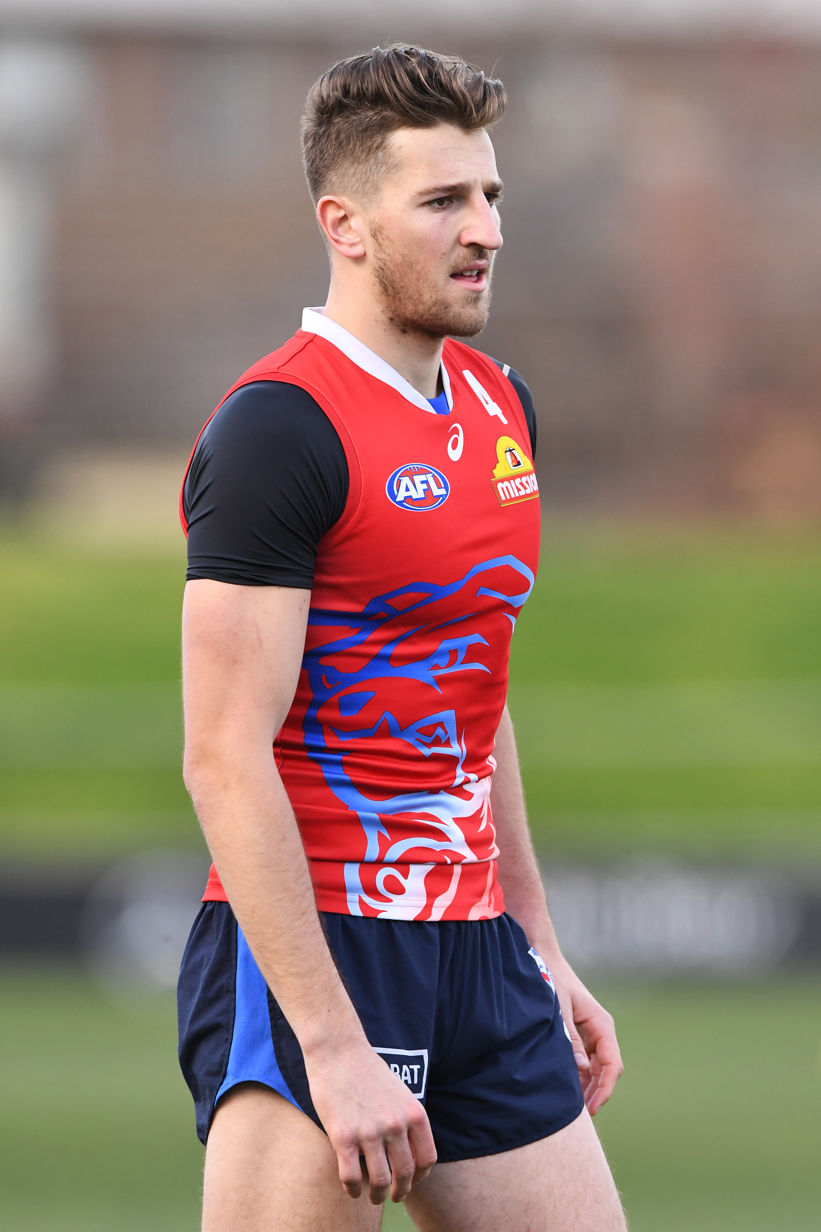 Marcus Bontempelli of the Western Bulldogs during Western Bulldogs training on 7 August 2018 at Whitten Oval in Melbourne, Victoria.